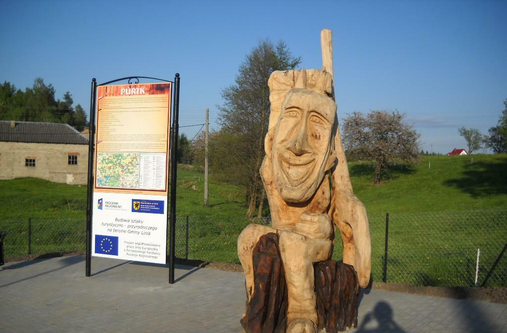 Statue of Kashubian mytical personage Pùrtk located on the „Poczuj Kaszubskiego Ducha” tourist route (Lewinko, Poland).